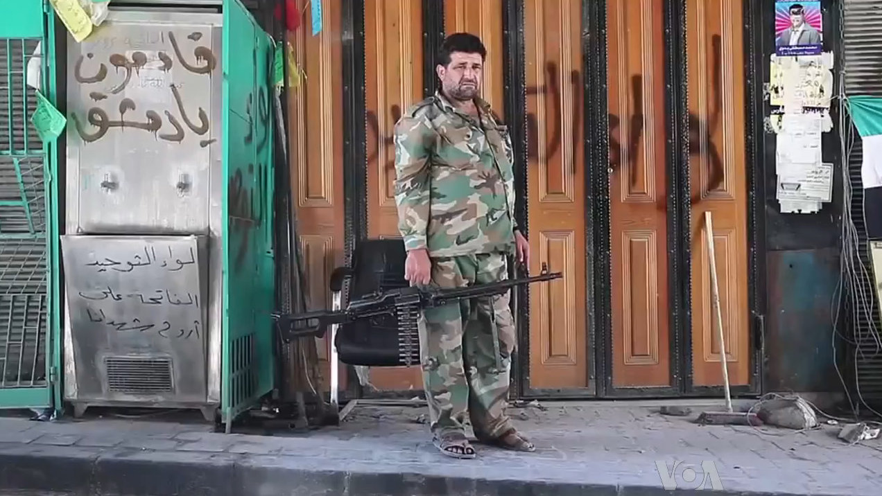 Free Syrian Army soldier with machine gun in Aleppo in front of door during the Syrian civil war.